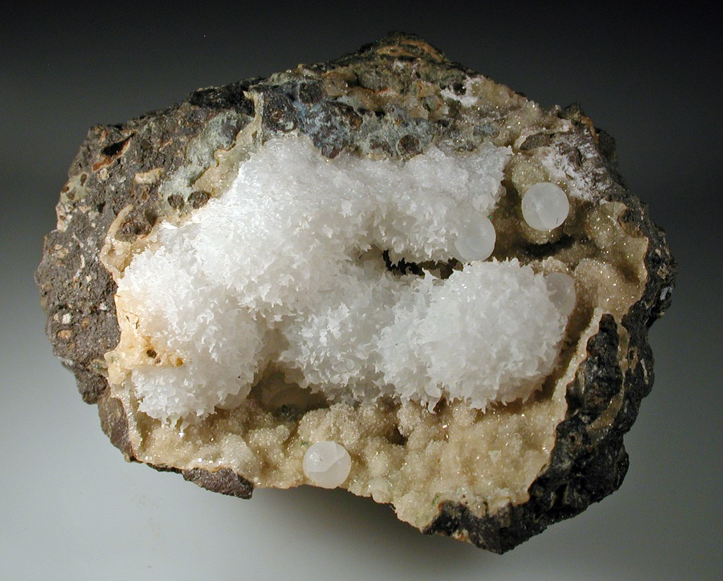 Thomsonite-Ca (Size: 30 x 25 x 18 mm) Locality: Neer Road, Goble, Columbia County, Oregon, USA Original description: Thomsonite spheres, some also with overgrowths of thomsonite, on calcite.